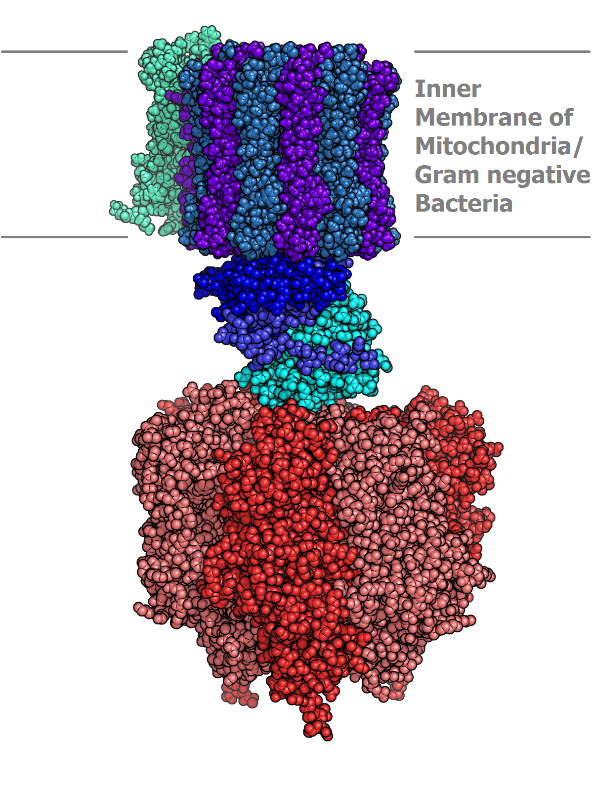 Using 1QO1 as framework to combine 1C17(FO) and 1E79(F1). PyMOL was used for rendering.